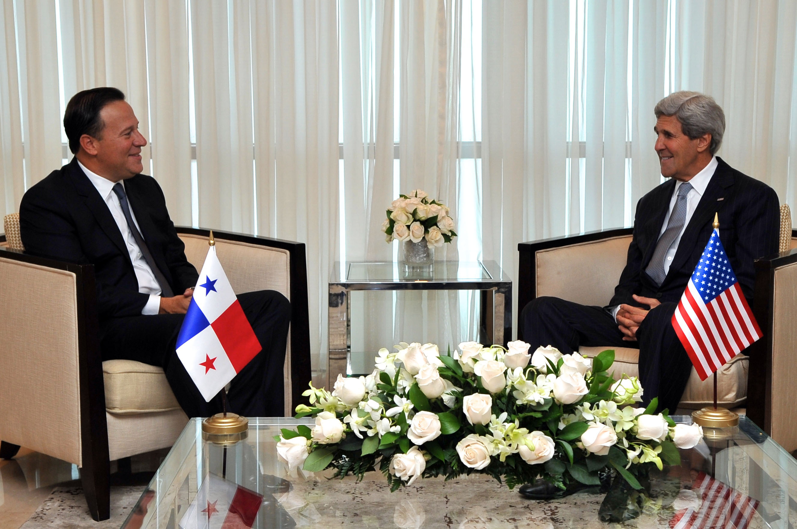 Panamanian President-Elect Juan Carlos Varela chats with U.S. Secretary of State John Kerry at the outset of a bilateral meeting before Varela's inauguration in Panama City on July 1, 2014.